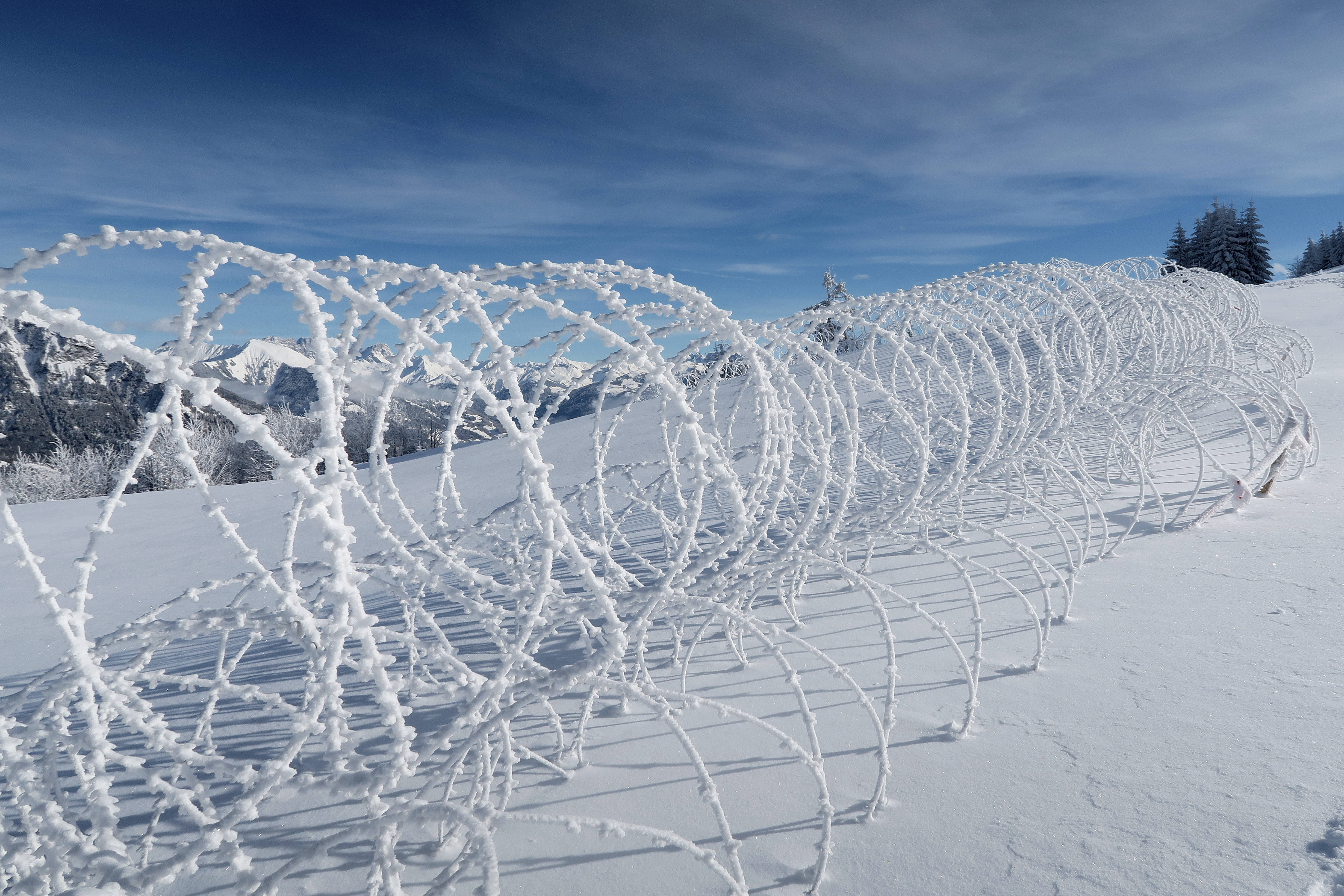 Along of the helipad. Although the terrain is not easy to access, everything is secured with barbed wire like in war. Temporary tactical flight radar outpost during the World Economic Forum (WEF). On a mountain above Pfäfers, Switzerland, Jan 18, 2015. (7/9)